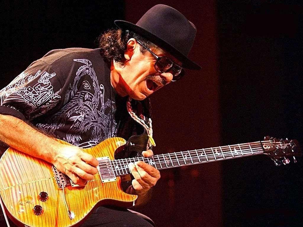 its an image of Carlos Santana